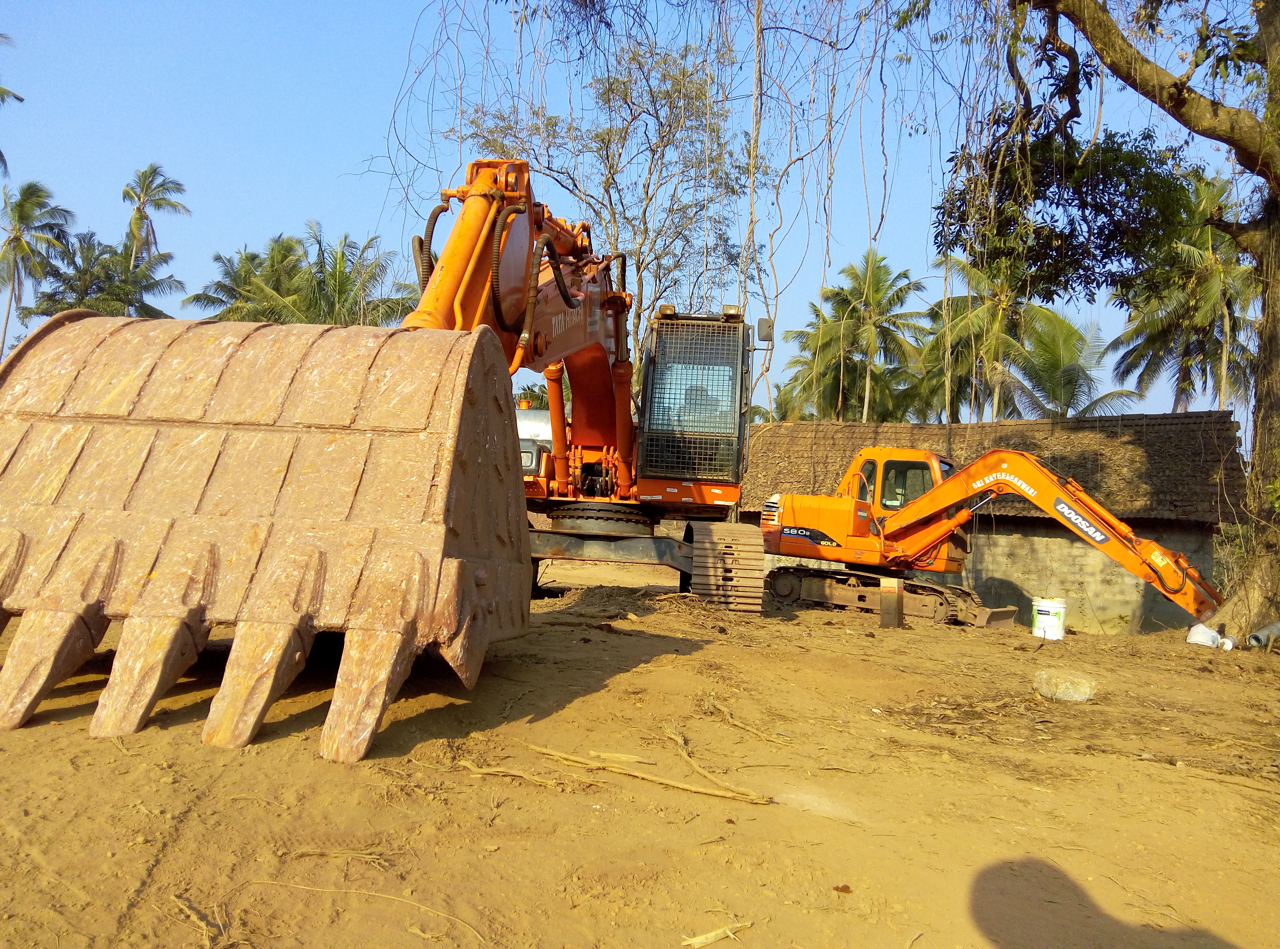 Ekskavator at Mudipu Mangaluru.